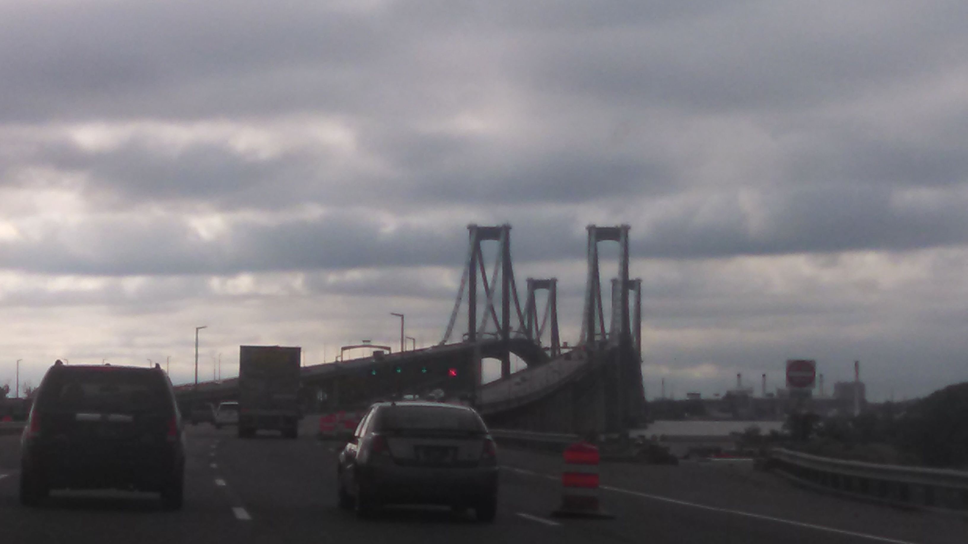 Delaware Memorial Bridge, Taken on June 7, 2017.